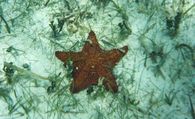 Oreaster reticulatus (Cushion Sea Star) in Grahams Harbour, San Salvador Island, Bahamas. June 20, 1999.